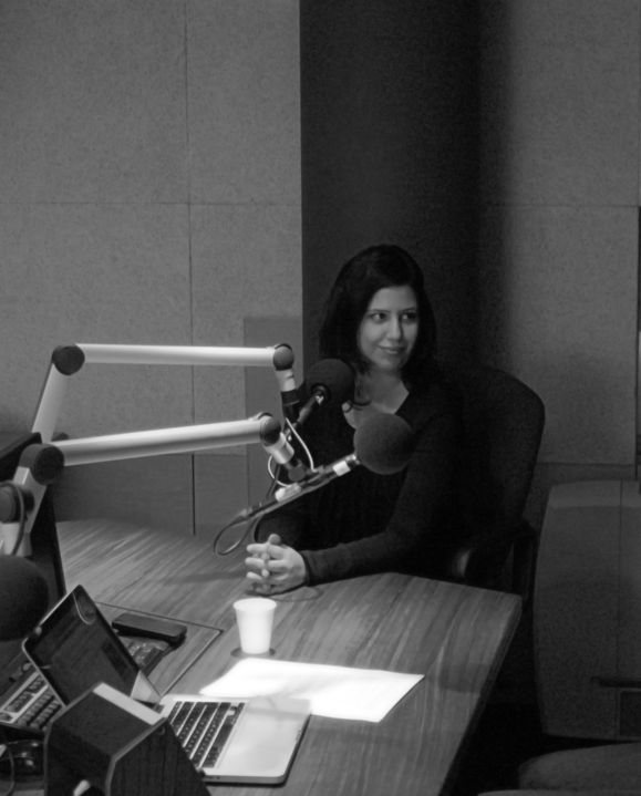 Jalila Essaïdi